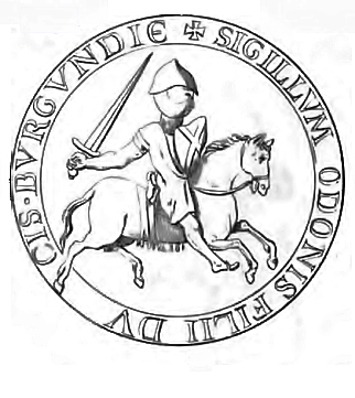 This image comes from : Recueil des sceaux du Moyen-Âge dits sceaux gothiques, Année MDCCLXXIX (1779). Édité à Paris. 1779.